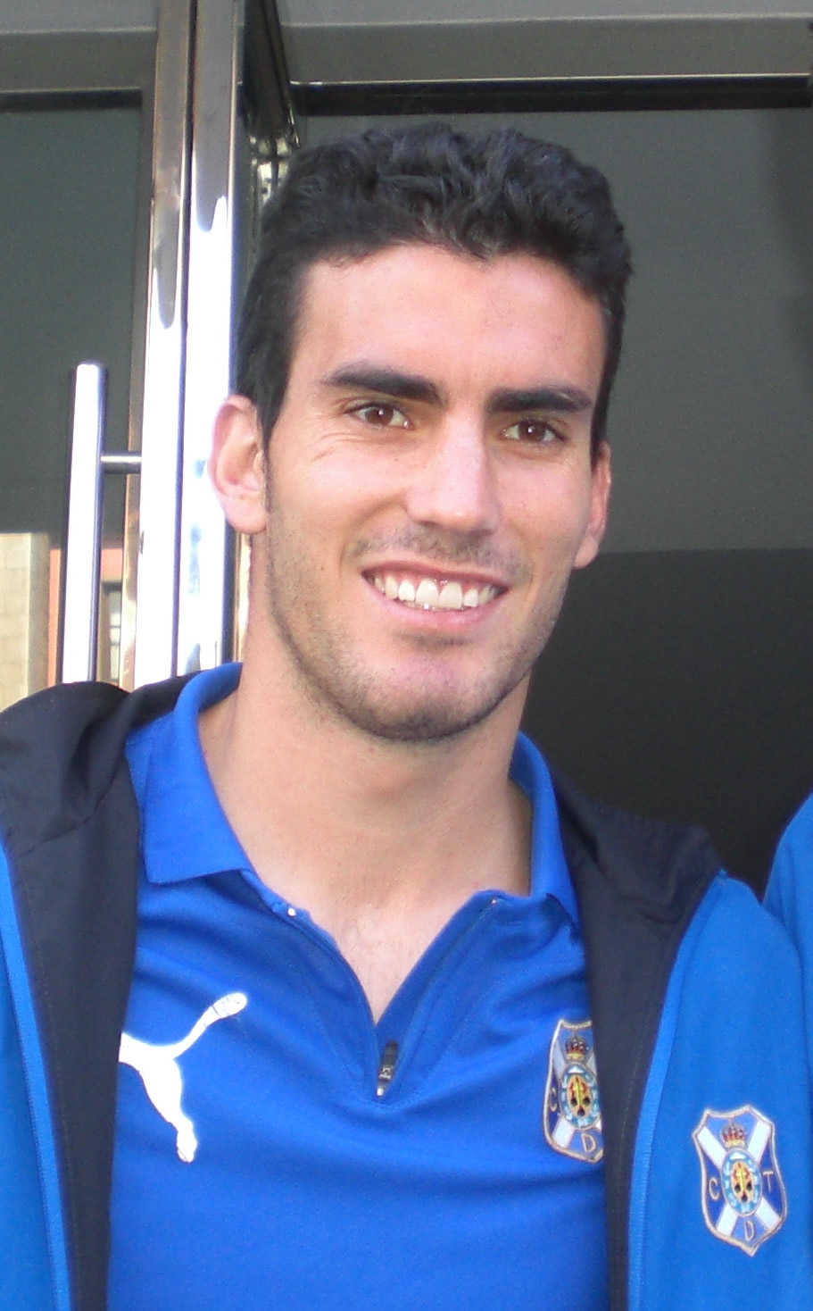 Alejandro Alfaro, Club Deportivo Tenerife's player.